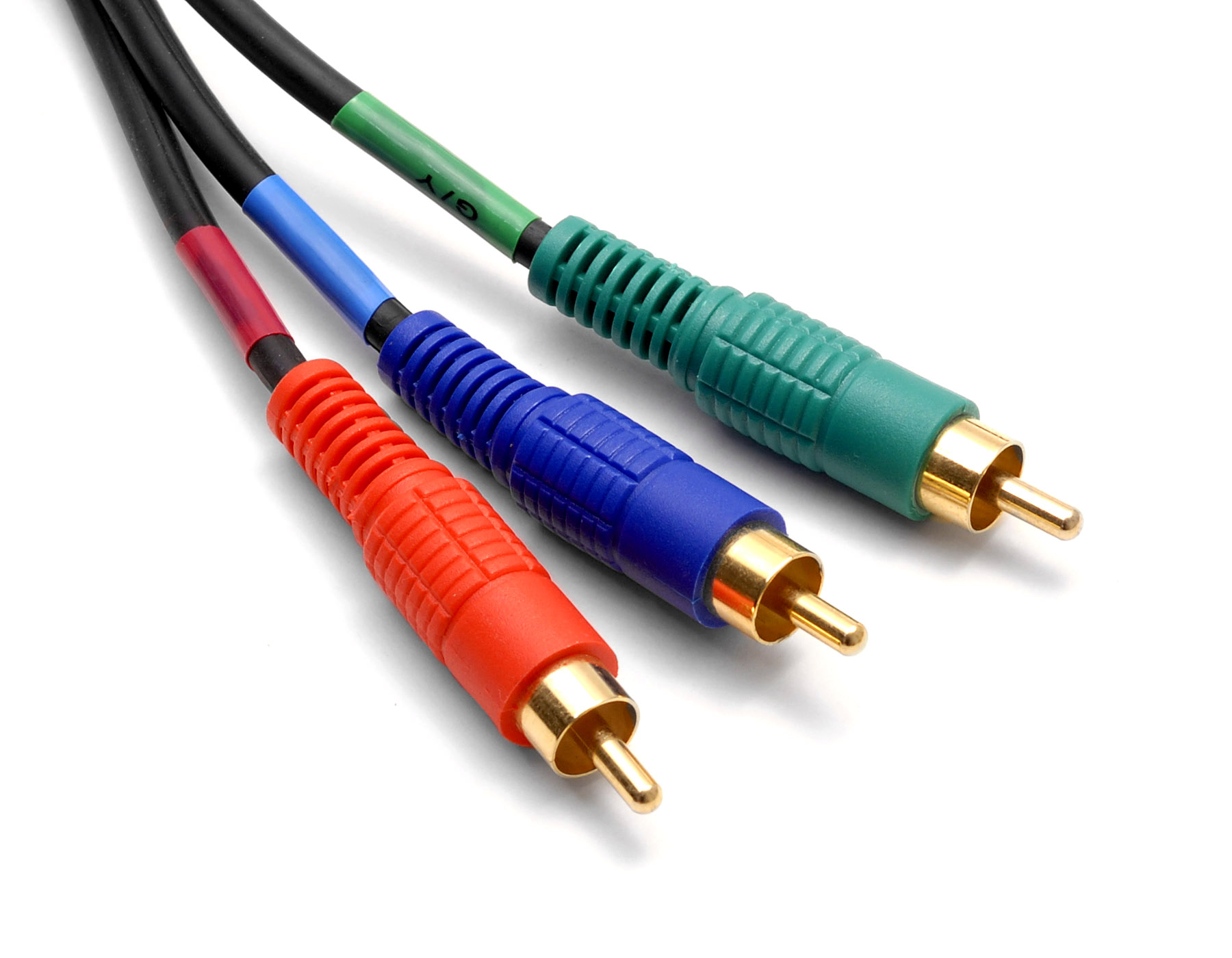 Component connection cables for video equipment.